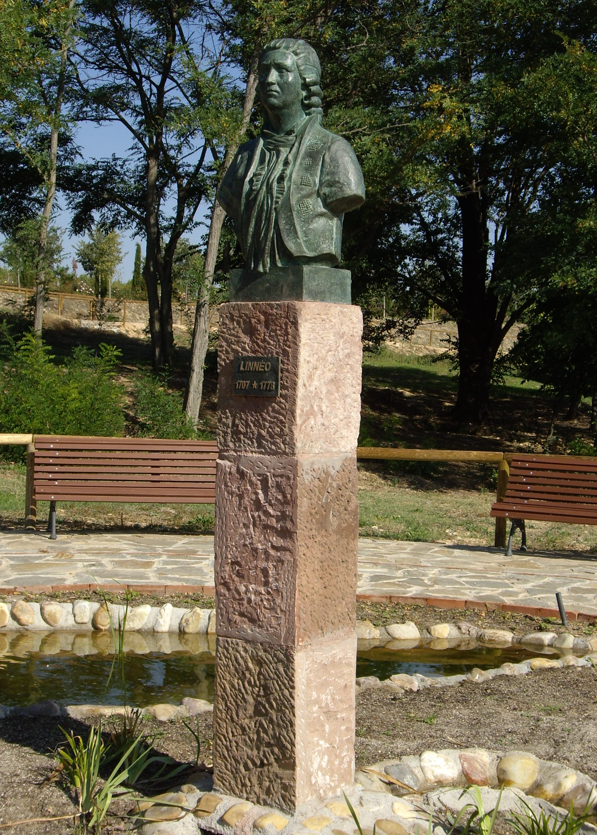 Royal Botanic Gardens, Juan Carlos I, located on the campus of Alcalá de Henares (University of Alcalá). Founded in 1990. Sculpture dedicated to Linnaeus.